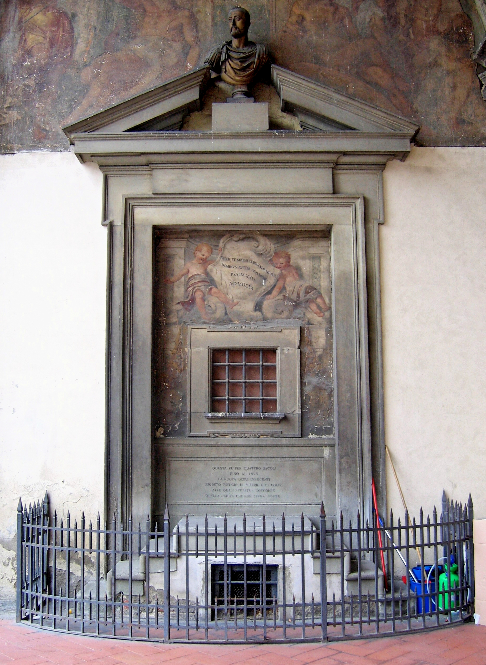 Spedale degli Innocenti detail, the baby hatch ruota outside view in Florence, Italy Fotograf: Richardfabi Ort: Florence Beschreibung: "Baby hatch" at the "Ospedale degli Innocenti" in Florence. Lizenz: Selbst fotografiert, PD-self